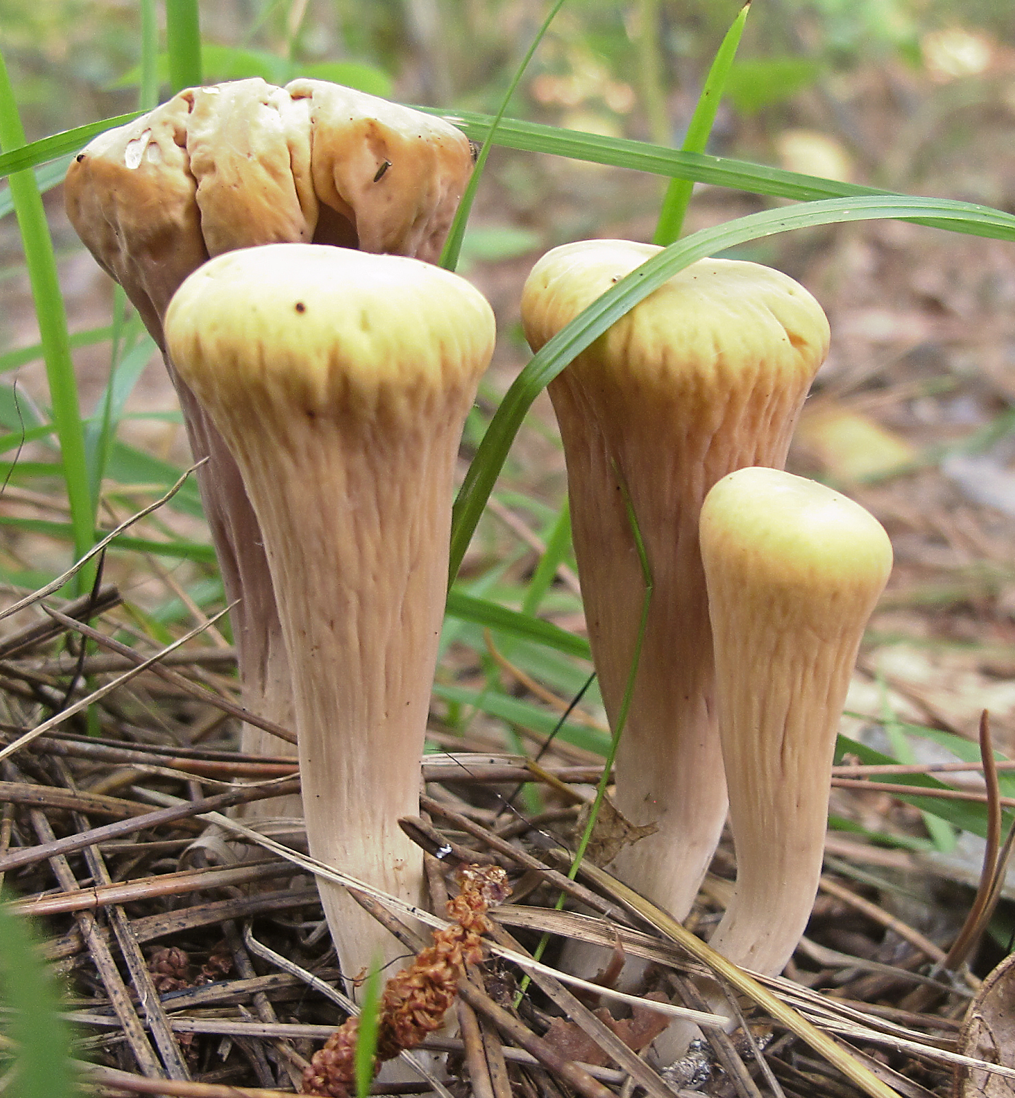 group of Clavariadelphus truncatus of different age from Bemidji, Minnesota, USA